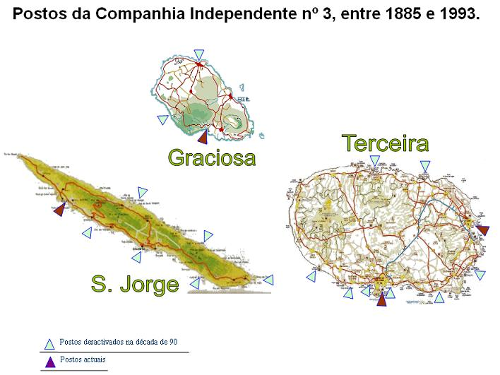 Dispositivo da Companhia Independente nº 3 de Angra do Heroísmo entre 1885 e 1993.